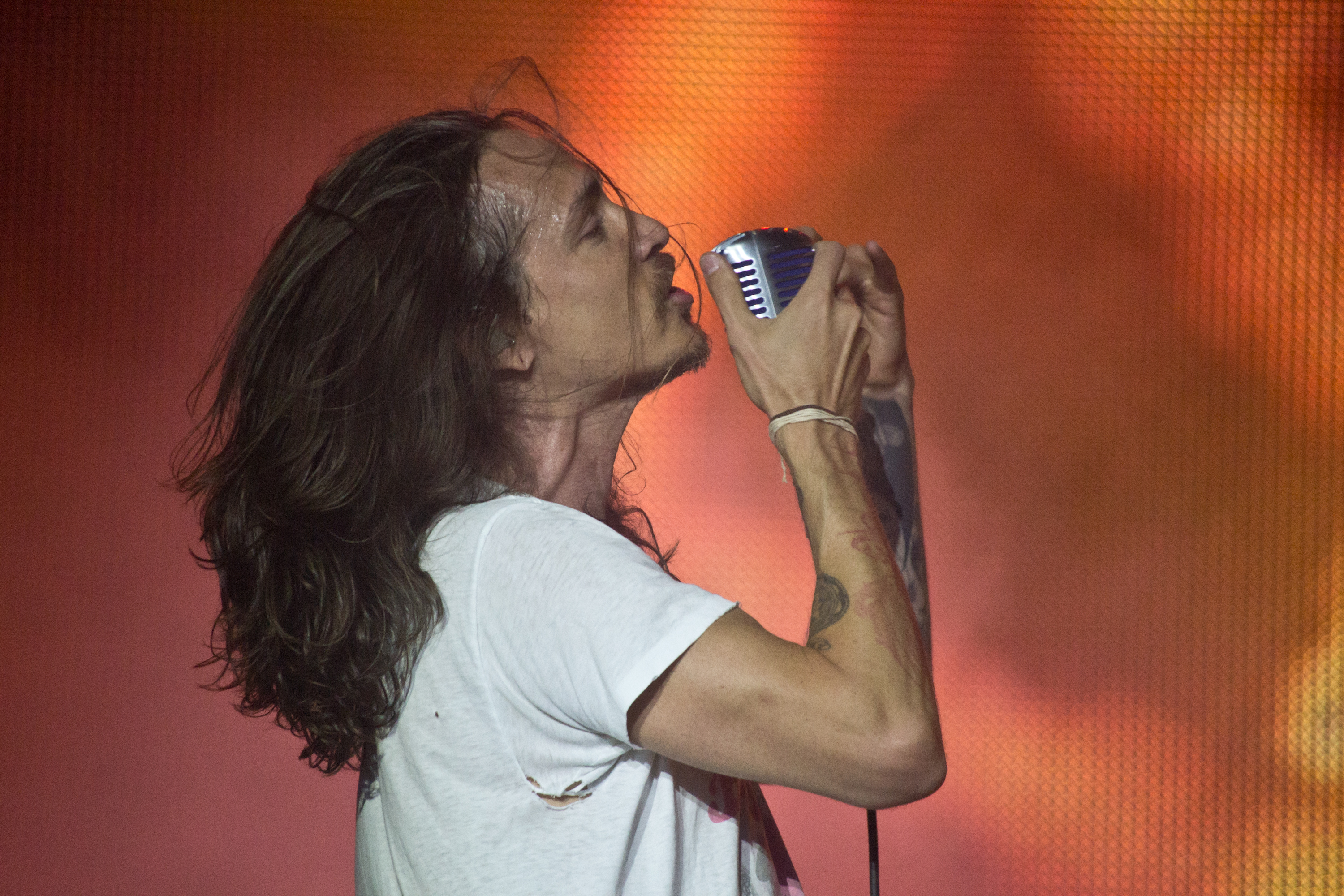 Incubus in Rock in Rio Madrid 2012.